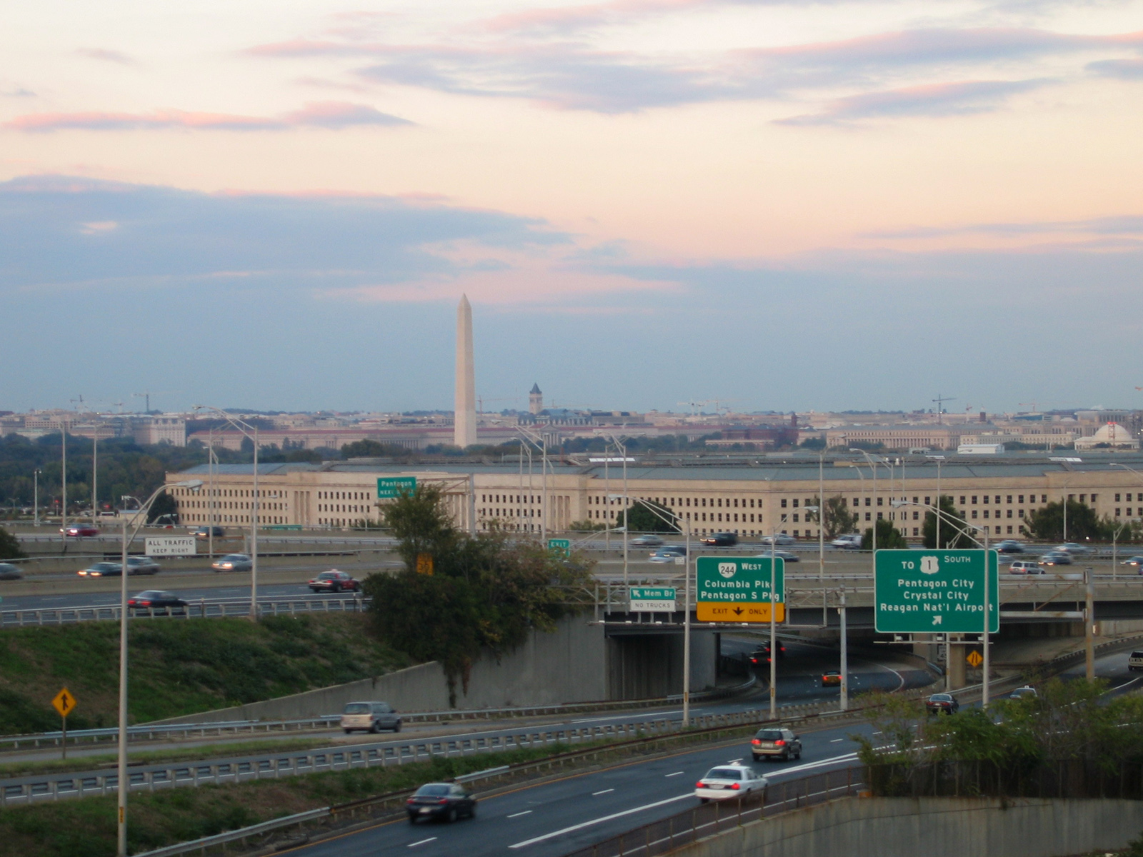 Evening rush hour on I-395 and Route 27, with the Pentagon in the background. This is looking north from the intersection of Lynn Street and Army Navy Drive. In the foreground is the ramp from I-395 north, Route 27 east and Arlington Ridge Road to I-395 north (no sign) and Hayes Street (to US 1 south). Behind is Route 27 east, with the ramp from I-395 north merging in on the right. After crossing under I-395 are two exits - the first for the Pentagon (south parking) and the second for Route 244. Beyond that, Route 27 heads towards the Arlington Memorial Bridge. The sign in the background is on I-395's reversible HOV lane, saying that the next exit (Eads Street) leads to the Pentagon. Taken on October 27, 2005 by Kmf164